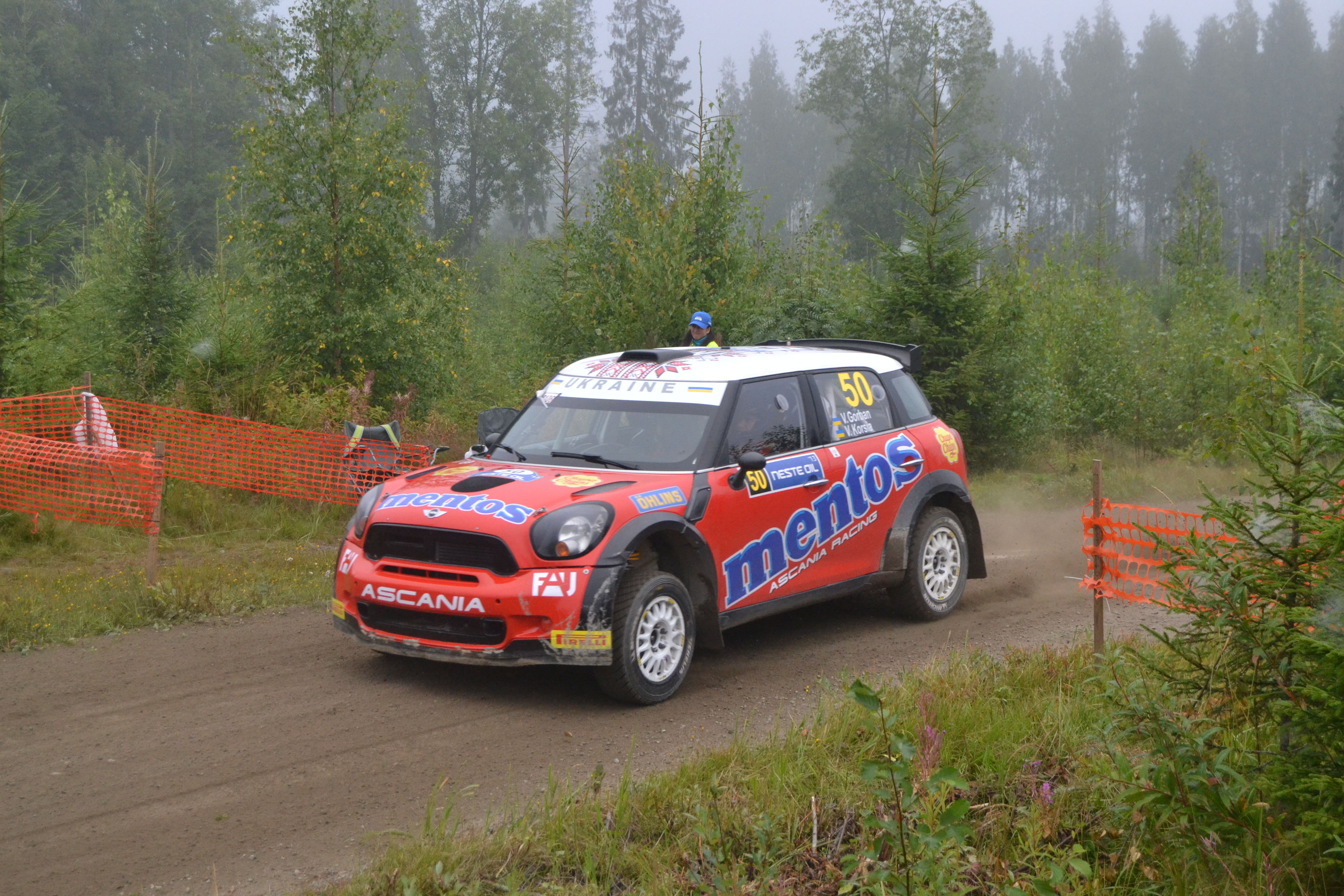 Valeriy Gorban at 1st Surkee stage at 2013 Rally Finland